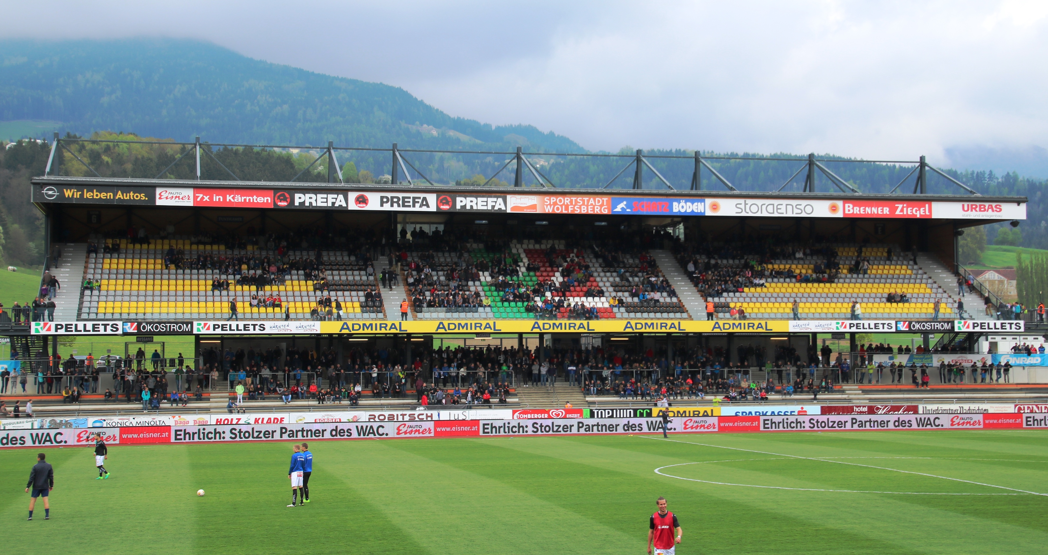 Austrian Bundesliga league match